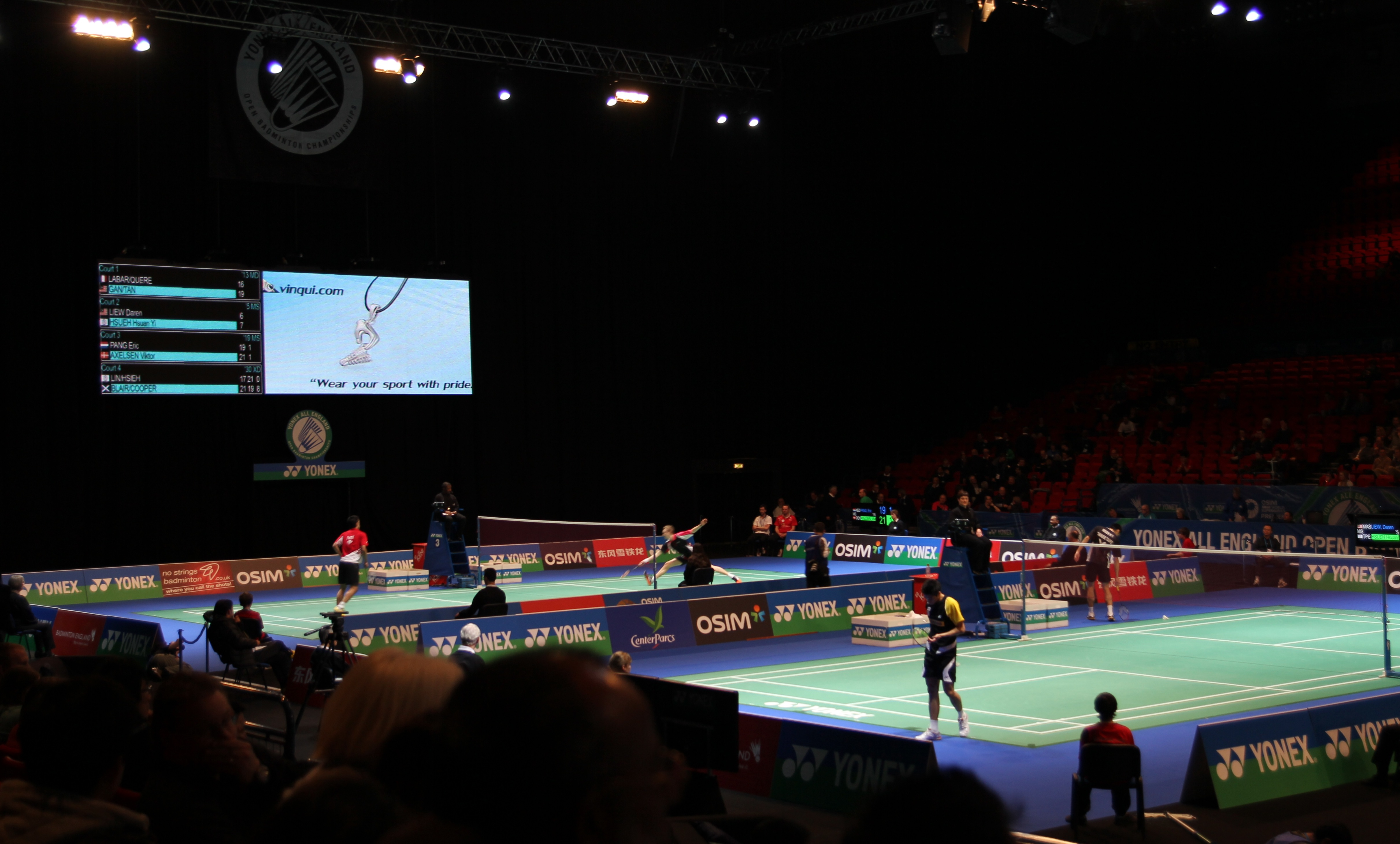 Vinqui on the big screen at the 2012 Yonex All-England Open Badminton Championships.